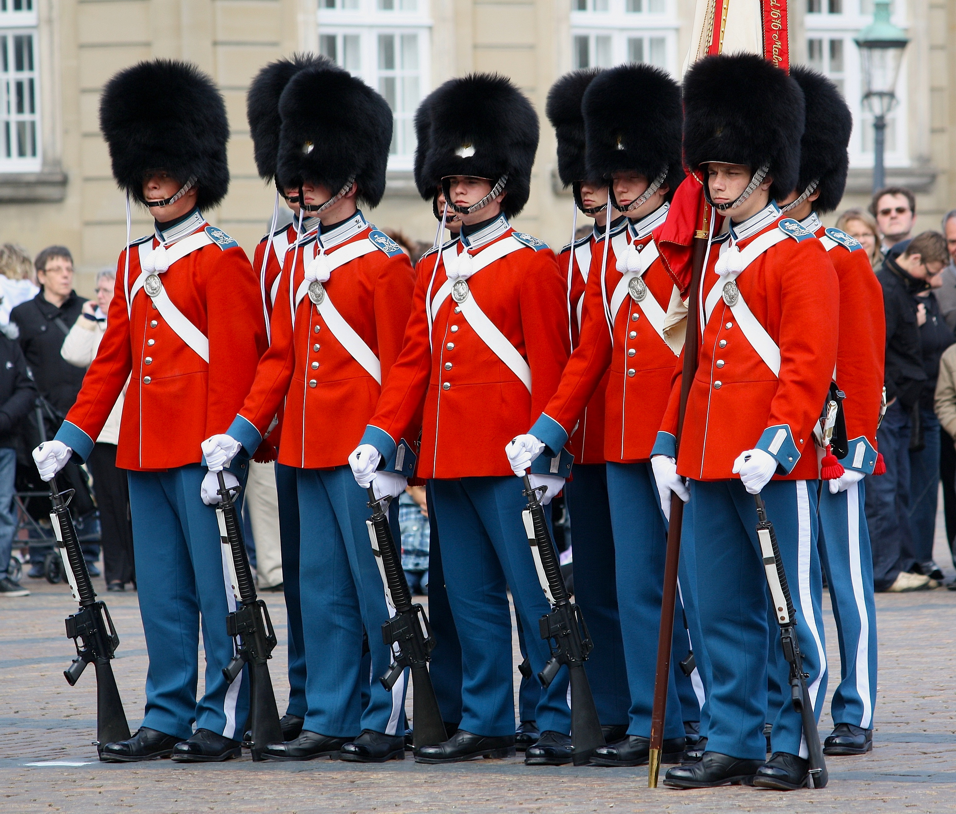 Danish Royal Guards during the ceremony of the changing of the guards on Queen Margaret II's Birthday, 16th April 2009, Copenhagen, Amalienborg Palace